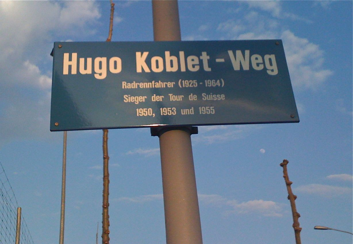 Street sign of Hugo-Koblet-Weg in Zürich, near the Oerlikon vélodrome. Reads: "Hugo Koblet-Weg, Radrennfahrer (1925-1964, Sieger der Tour de Suisse 1950, 1953 und 1955".